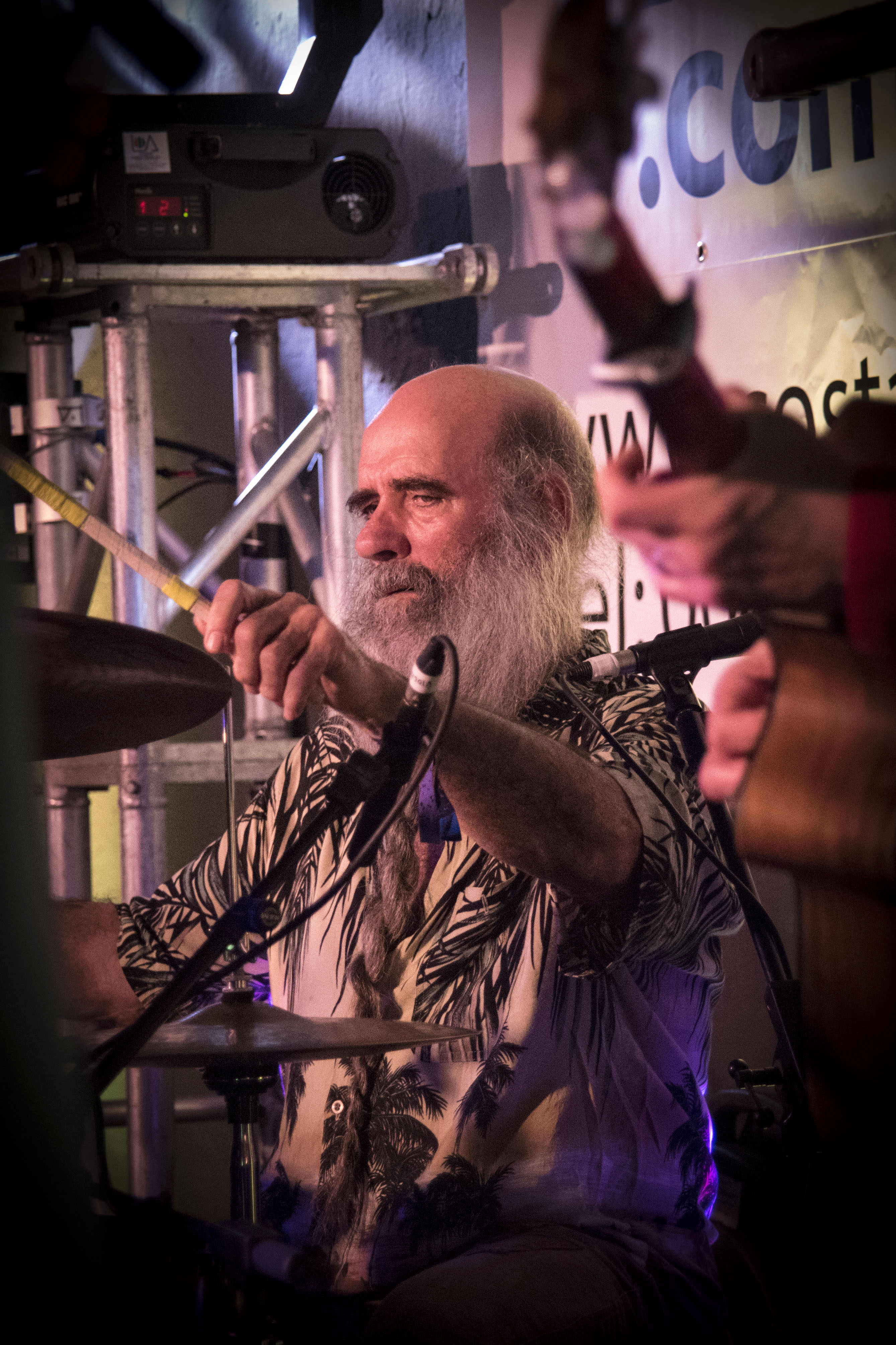 Liam Genockey in concert with Steeleye Span